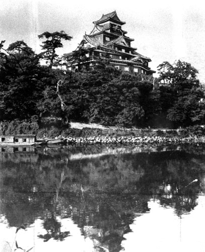 Okayama Castle keep tower in 1934. It was destroyed by fire of Okayama air raid in June 1945.